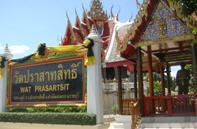 Wat Prasat Sit, Damnoen Saduak district, Ratchaburi province